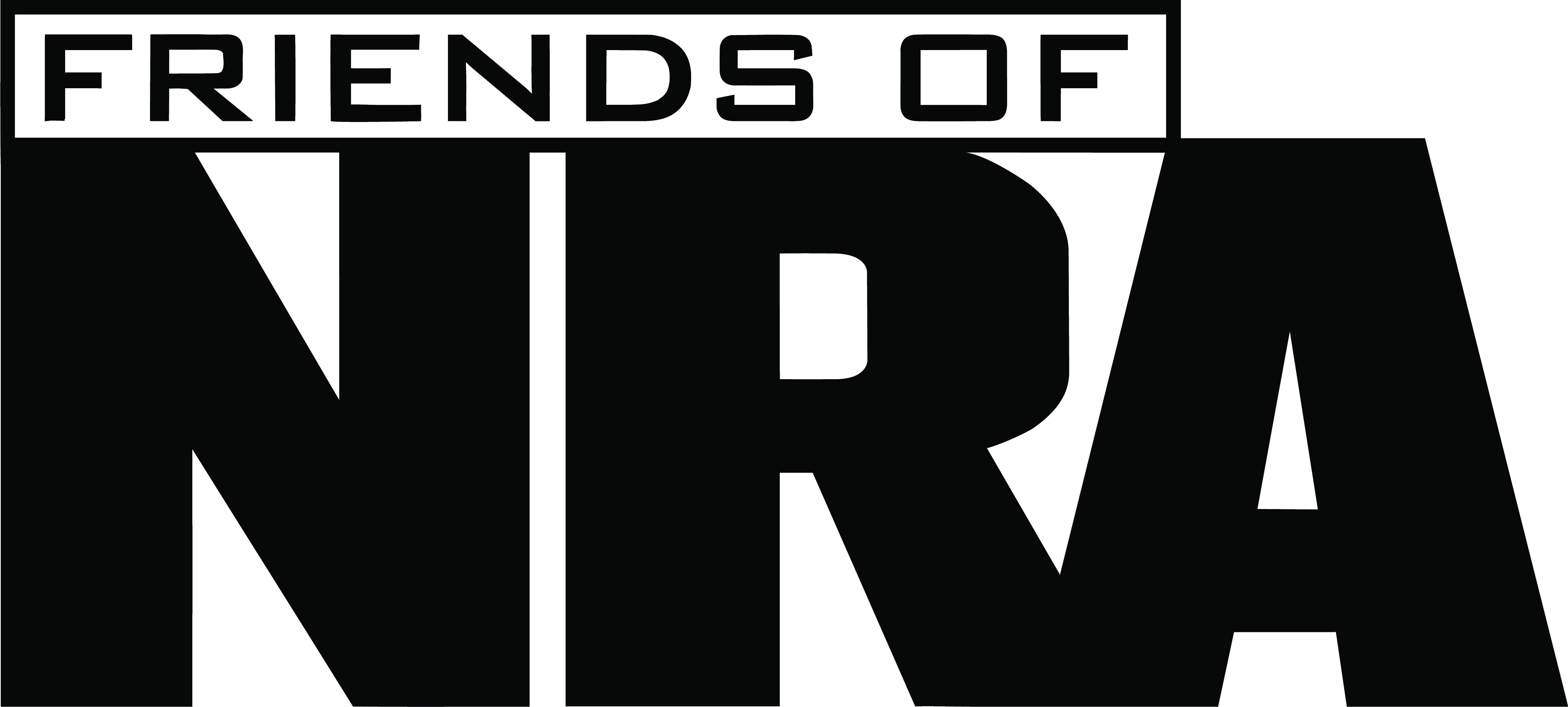 New Friends of NRA logo as of December 2011